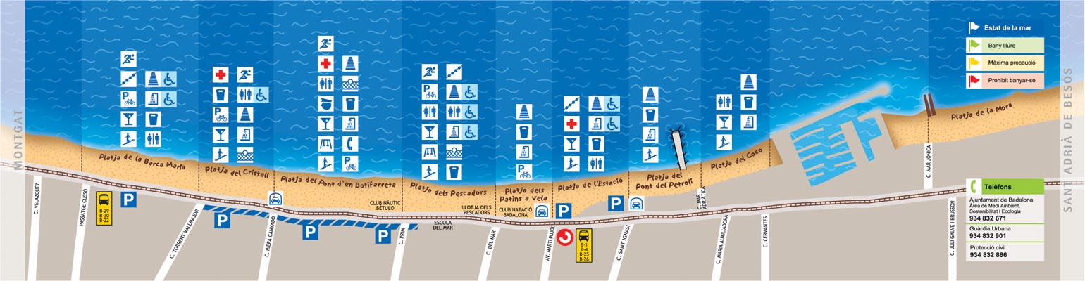 Badalona's beaches map.